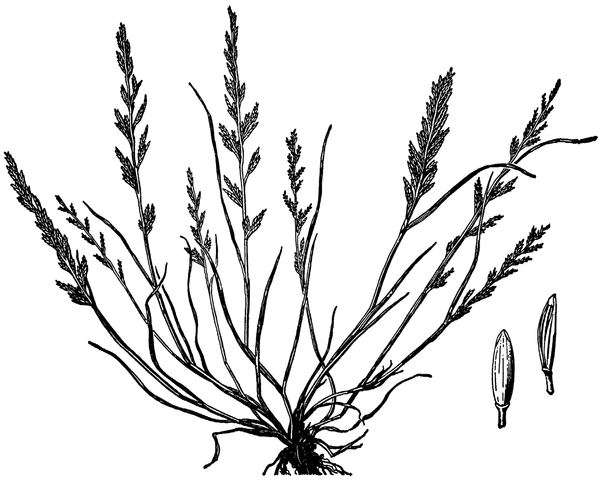 Catapodium rigidum (L.) C.E. Hubbard ex Dony - ferngrass